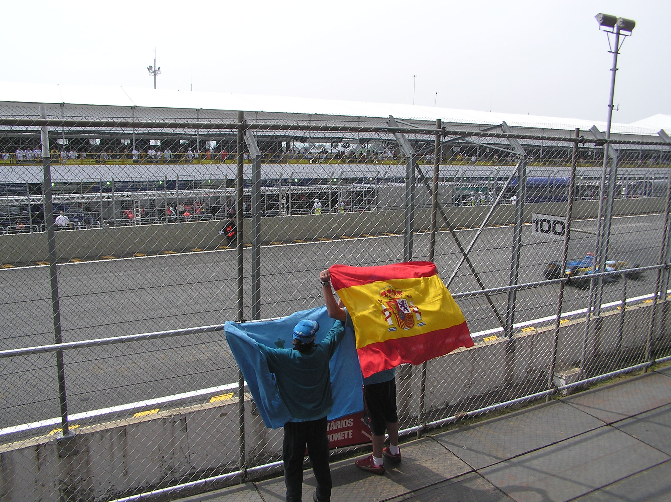 The Spanish boys that twist for Fernando Alonso in the 2005 Brazil Grand Prix.